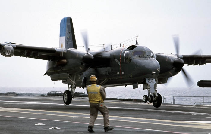 An Argentine Navy Grumman S-2T Turbo Tracker landing on board the Brazilian aircraft carrier NAe São Paulo (A12), during exercise "TEMPEREX 2002", off the Brazilian coast.